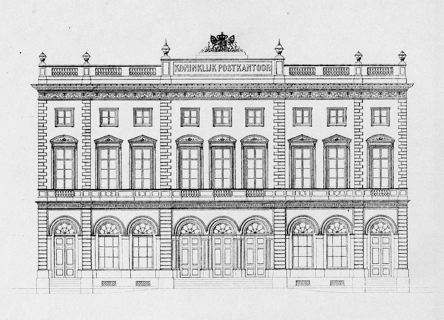 Royal Post Office, Nieuwezijds Voorburgwal 192, Amsterdam, front elevation. 1854 (demolished 1897). Detail of a plate. Amsterdam, Stadsarchief (inv.nr. 010056918744).